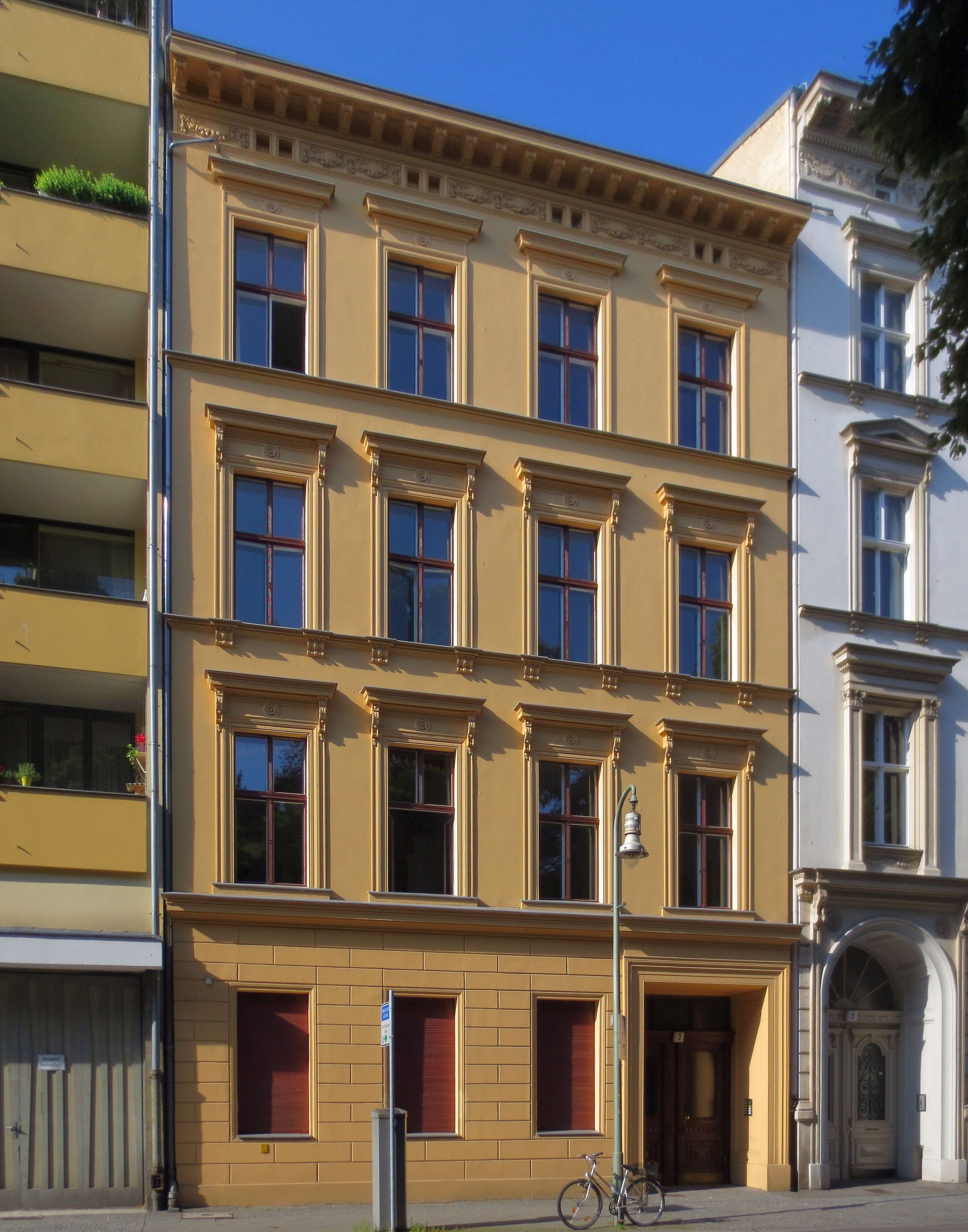 Residential building Magdeburger Platz 3 in Berlin-Tiergarten. The house was built from 1873 to 1874 by J. C. Forkert. It has been designated as a cultural heritage monument.